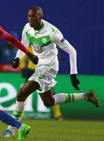 Josuha Guilavogui